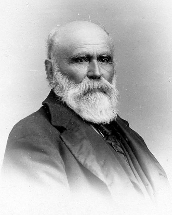 Aquileo Parra, Colombian president from 1876 to 1878